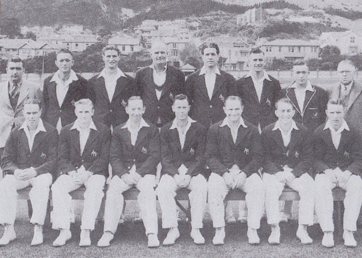 A photograph of the Australian national cricket team during its 1945–46 tour of New Zealand, taken prior to the Test match in Wellington in March 1946.